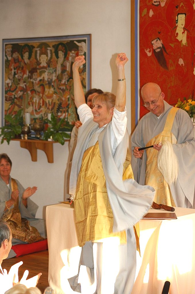 Zen Master Bon Shim Czech lead teacher